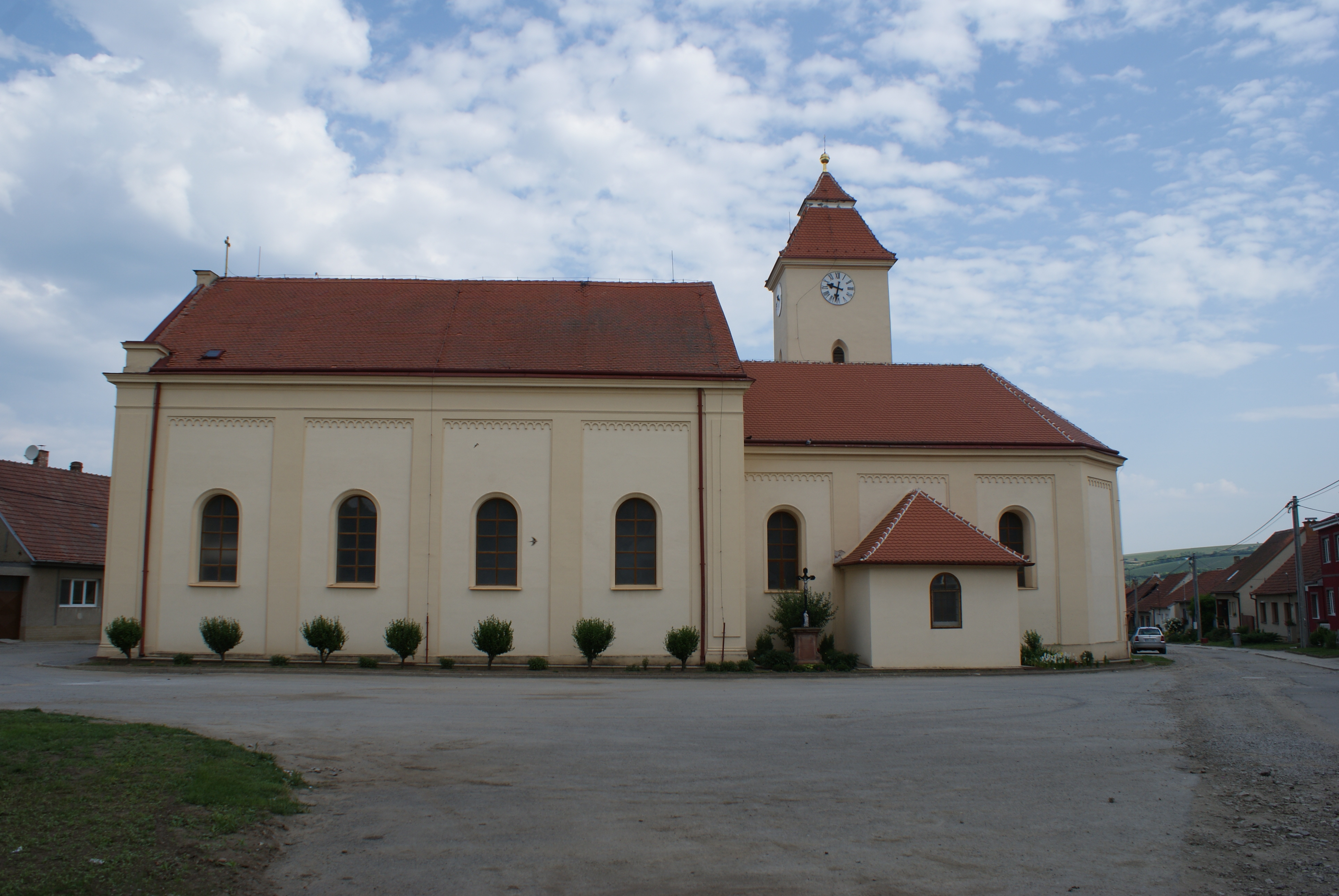 Starovice, a village in Břeclav District, Czech Republic, church.